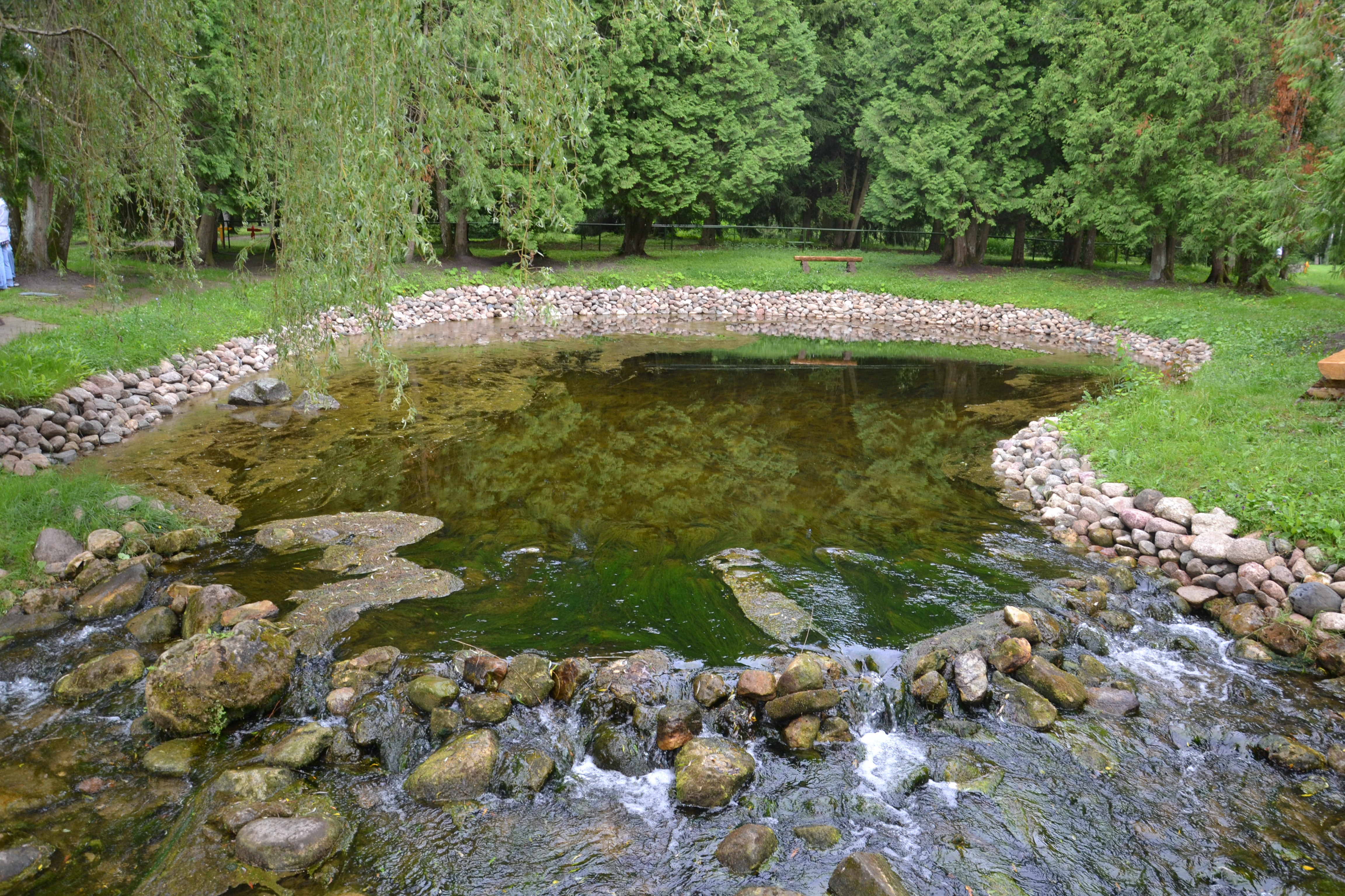 Smardones spring, Likėnai, Birzai district, Lithuania